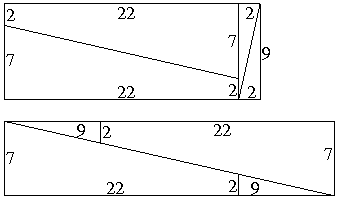 The lower rectangle consists of parts of the upper rectangle, but it has one unit of area more than the upper